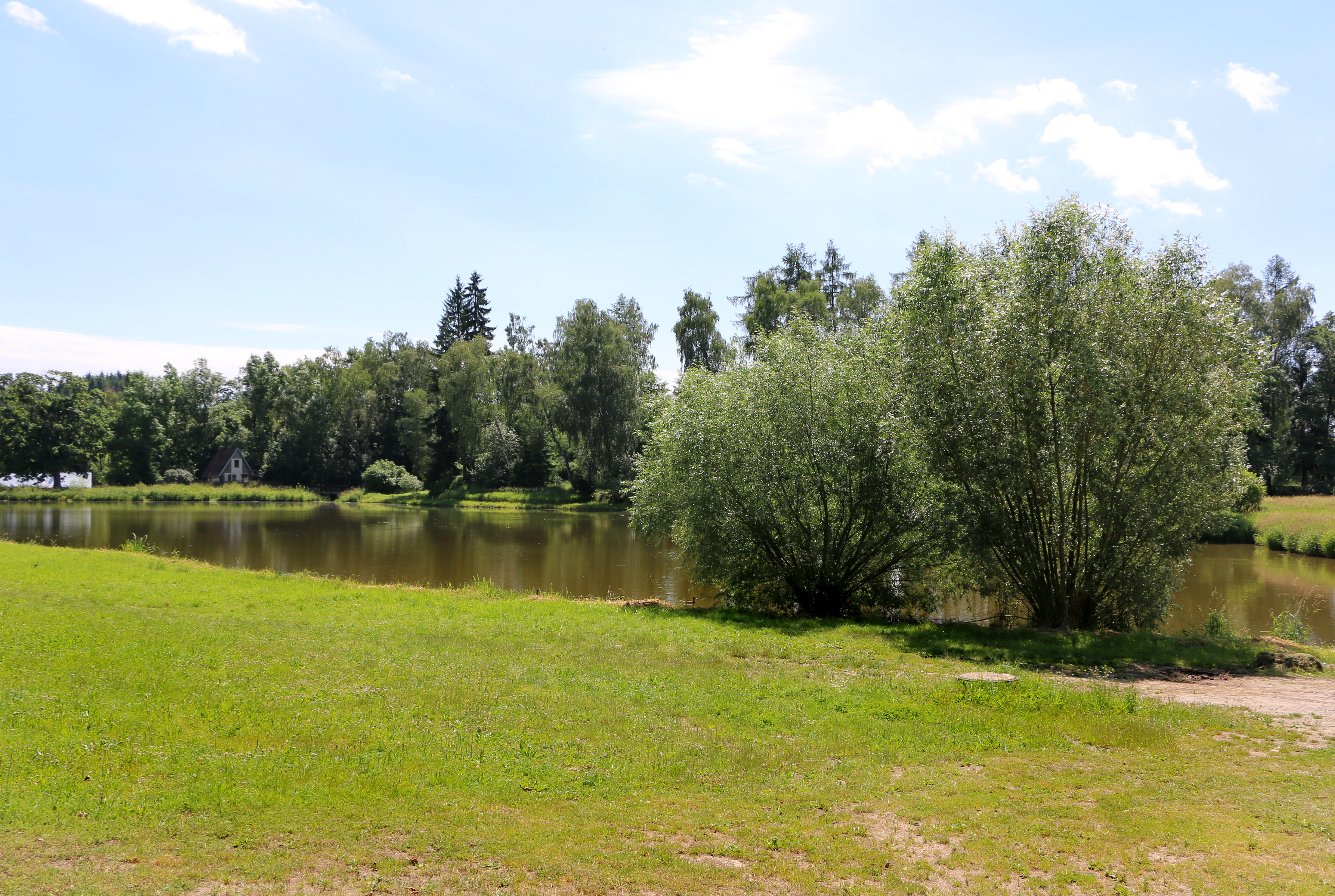 Dolní Jarošův pond in Stonařov, Czech Republic.